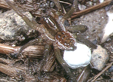 female Pirata subpiraticus with egg sac from Okinawa.